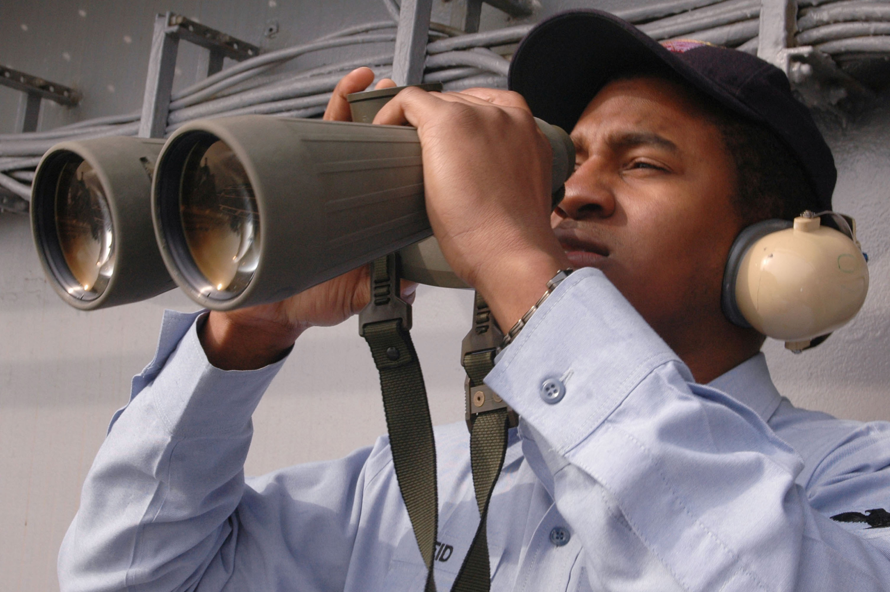 U.S. Navy Petty Officer 2nd Class Christopher Reid uses binoculars to look at commercial ships near the aircraft carrier USS Kitty Hawk's (CV 63) as the ship operates in the Pacific Ocean on March 3, 2008. Reid is a Navy Intelligence Specialist onboard the carrier.